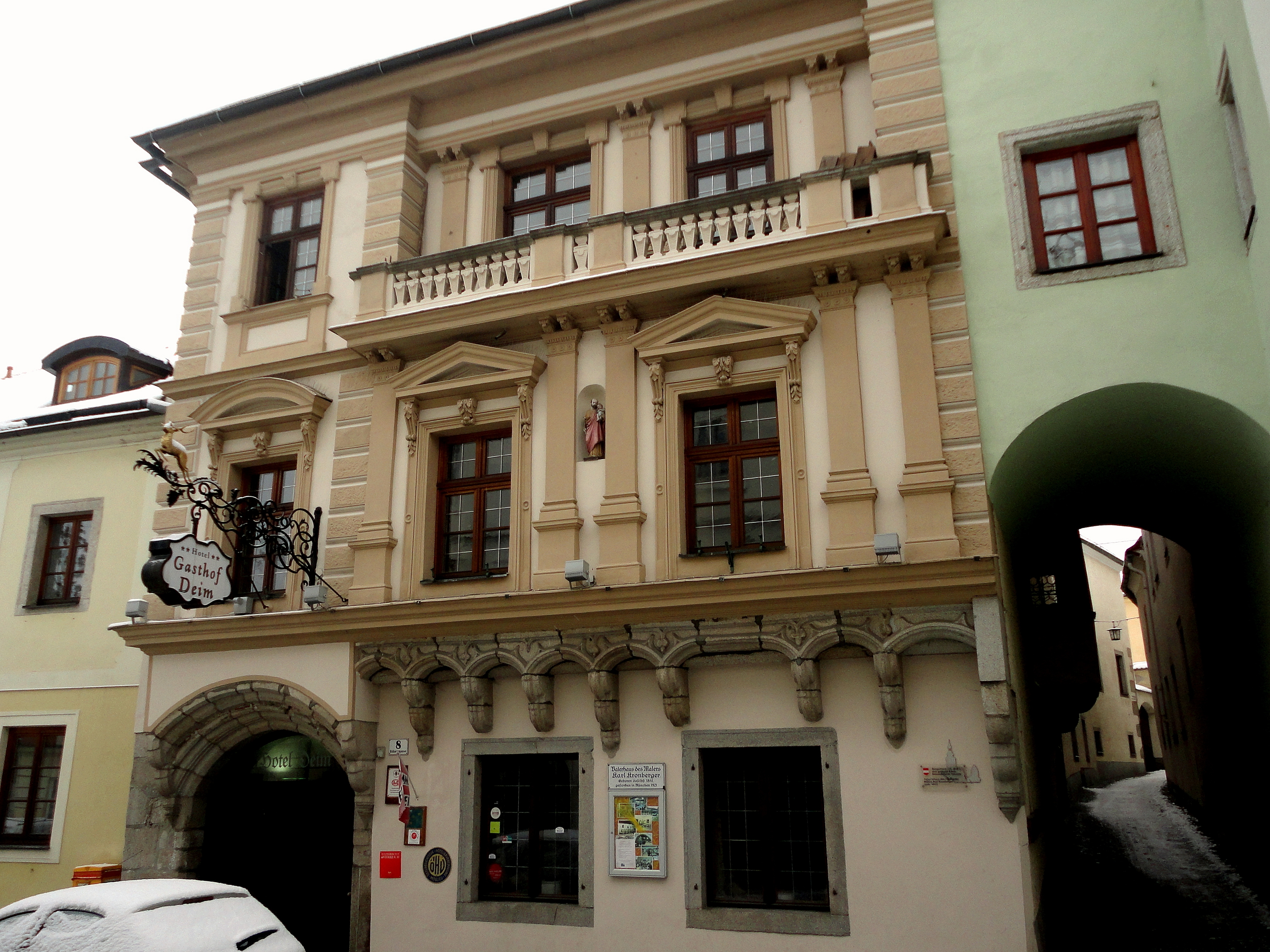 House in Freistadt, Upper Austria, were Carl Kronberger was born.